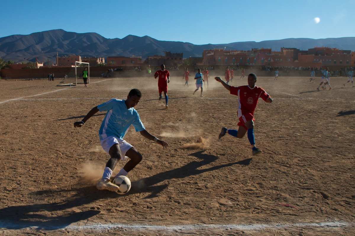 Players from the two clubs in Agdz, Morocco go after the ball at a match on Sunday, December, 30, 2012.